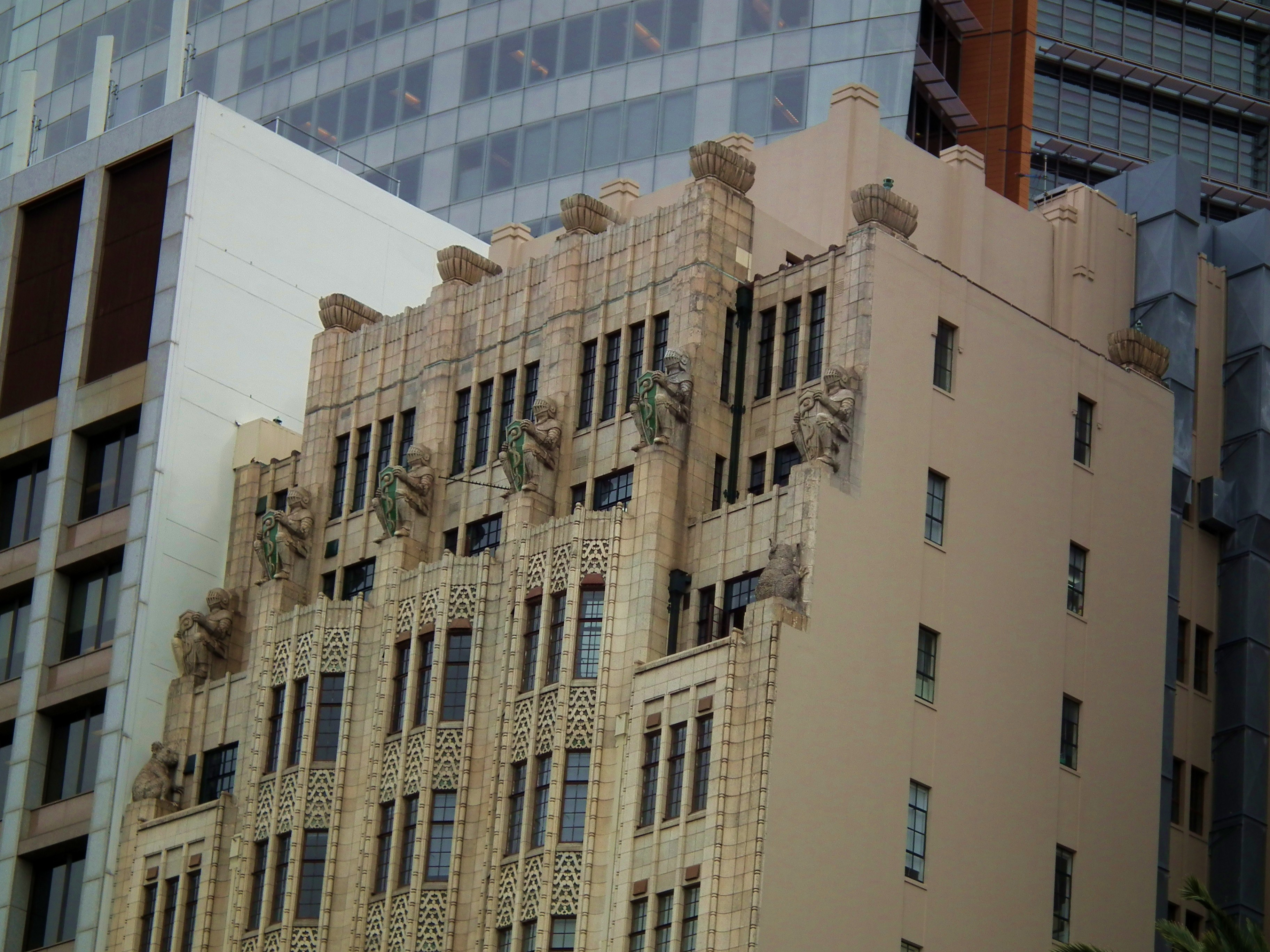 BMA (British Medical Association) House - Sydney, New South Wales. Built 1929-30. Located at 135-137 Macquarie Street.